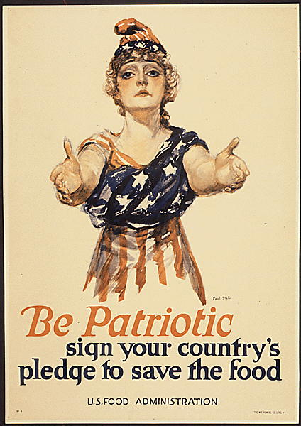 World War I poster by Paul Stahr, featuring Columbia, the female personification of the United States. Text reads: Be Patriotic Sign your country's pledge to save the food U.S. Food Administration